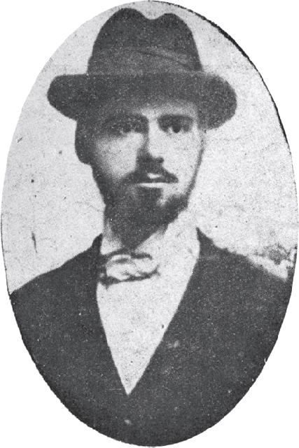 Portrait of IMARO member Ivan Anastasov Grcheto